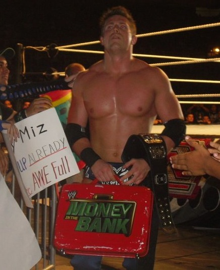 The Miz at a Puerto Rico house show